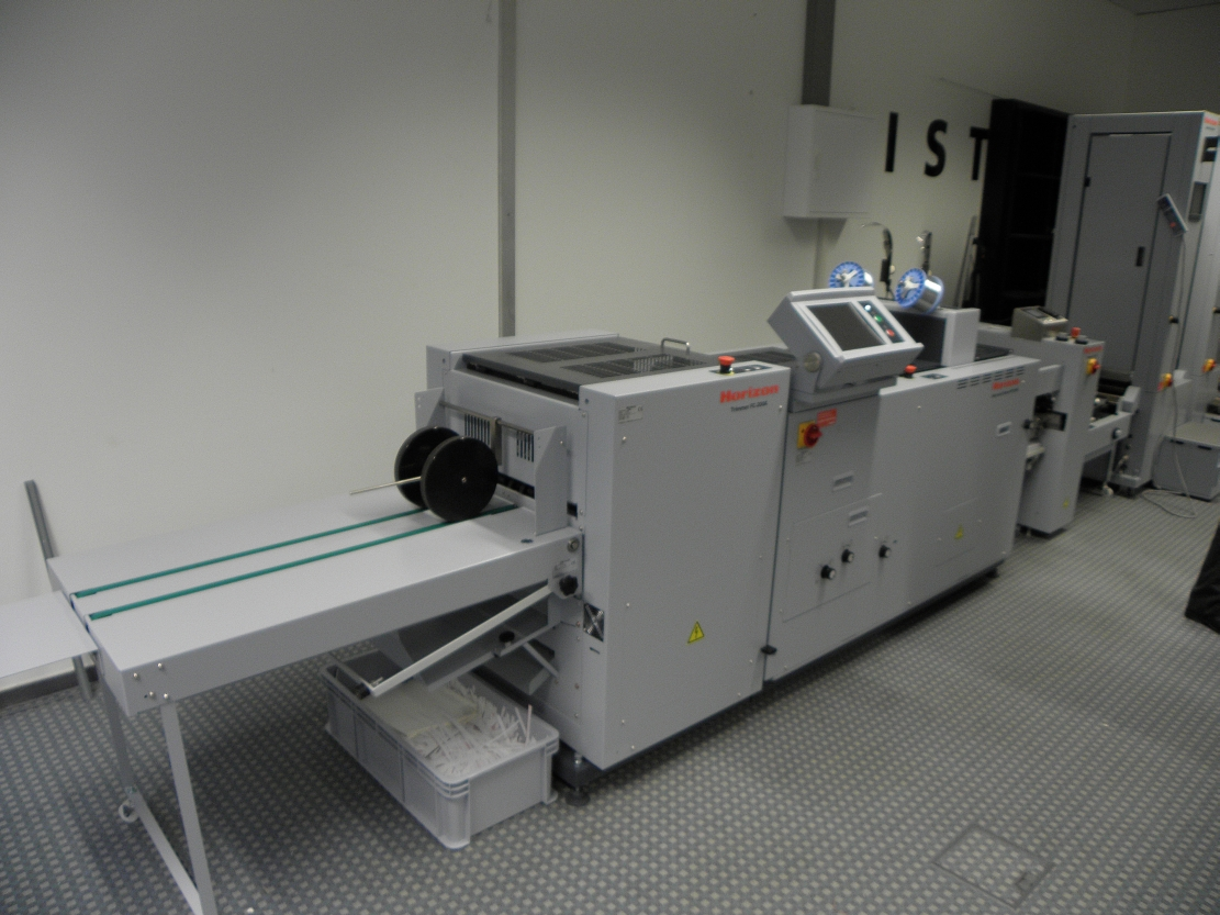 Digital Printing presses